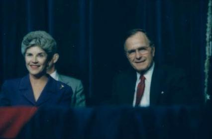 PRESIDENT BUSH ADDRESSES A FUNDRAISING RECEPTION FOR FORMER REP. HAL DAUB, CANDIDATE FOR U.S. SENATE; GOV. KAY ORR AND ALLY MILDER, GOP CANDIDATE FOR U.S. CONGRESS AT THE RED LION HOTEL. THE DAIS BACKDROP SAYS 'NEBRASKA WELCOMES PRESIDENT BUSH'. THE PRESIDENT GREETS SEN. DAVID KARNES AND GROUP, AND P.J. MORGAN, THE MAYOR OF OMAHA.